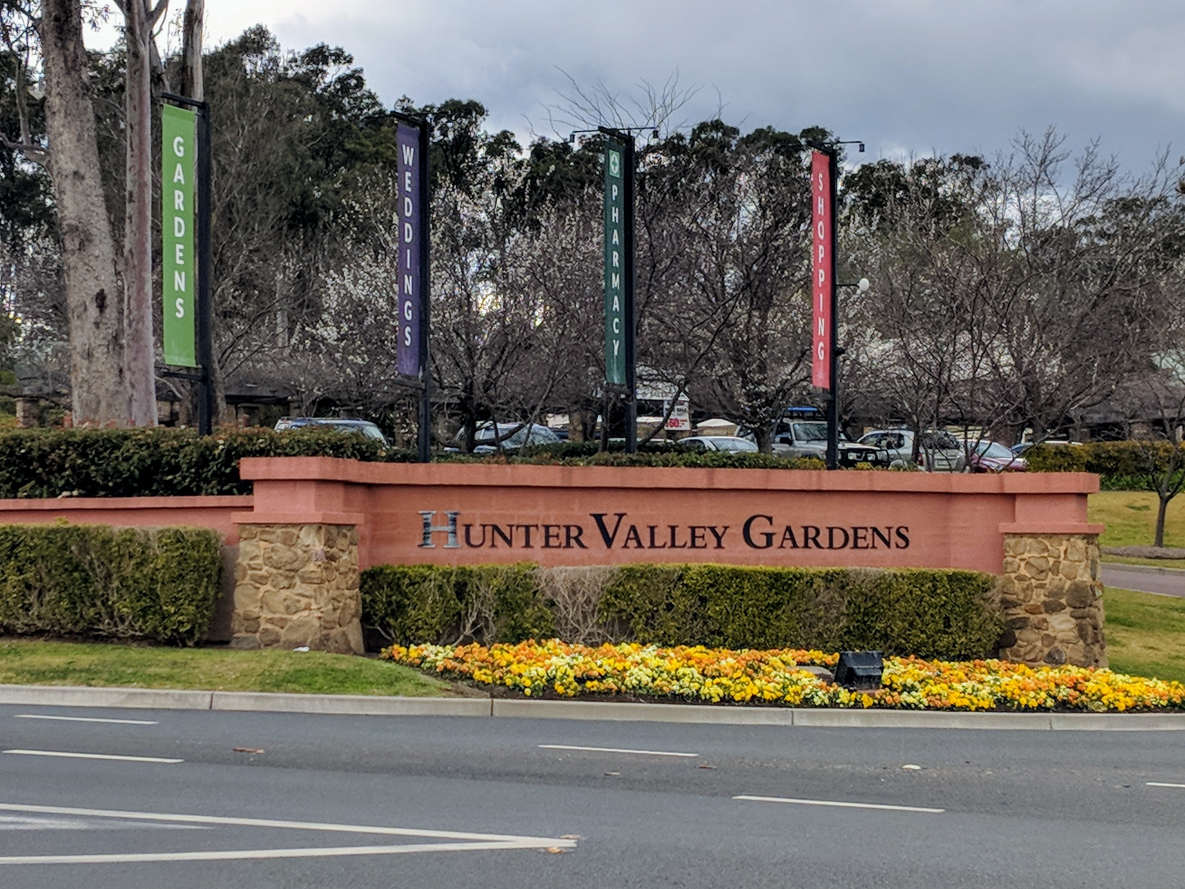 The walls outside the entrance to Hunter Valley Gardens